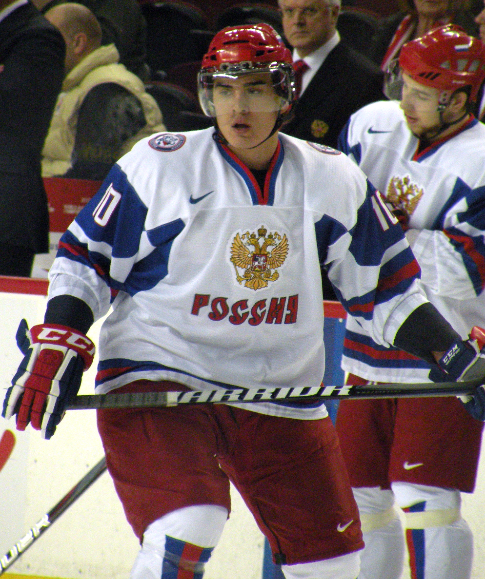 Russian forward Nail Yakupov prior to a game against Team Sweden at the 2012 World Junior Hockey Championship, held in Calgary, Alberta, Canada.